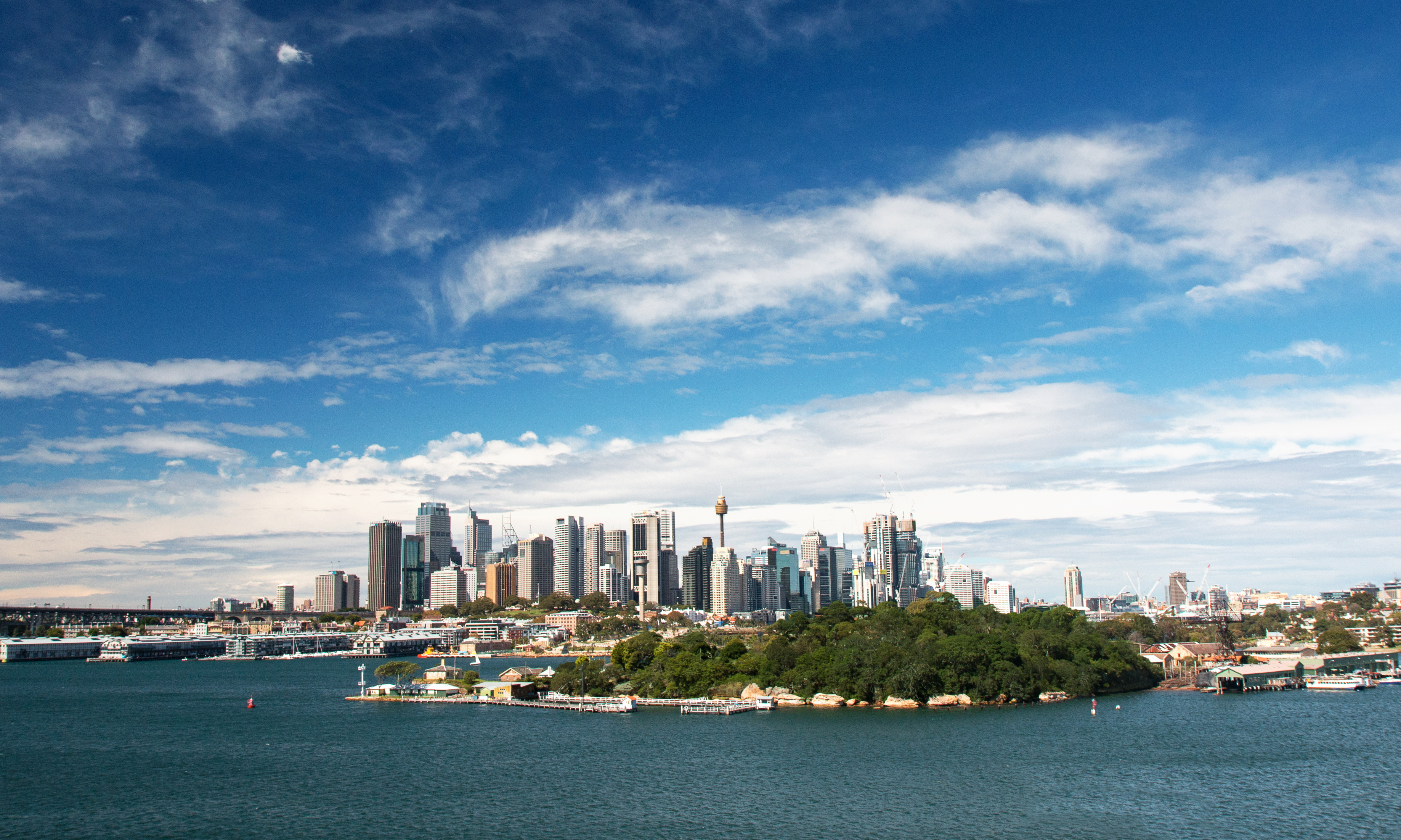 Goat Island and Downtown Sydney